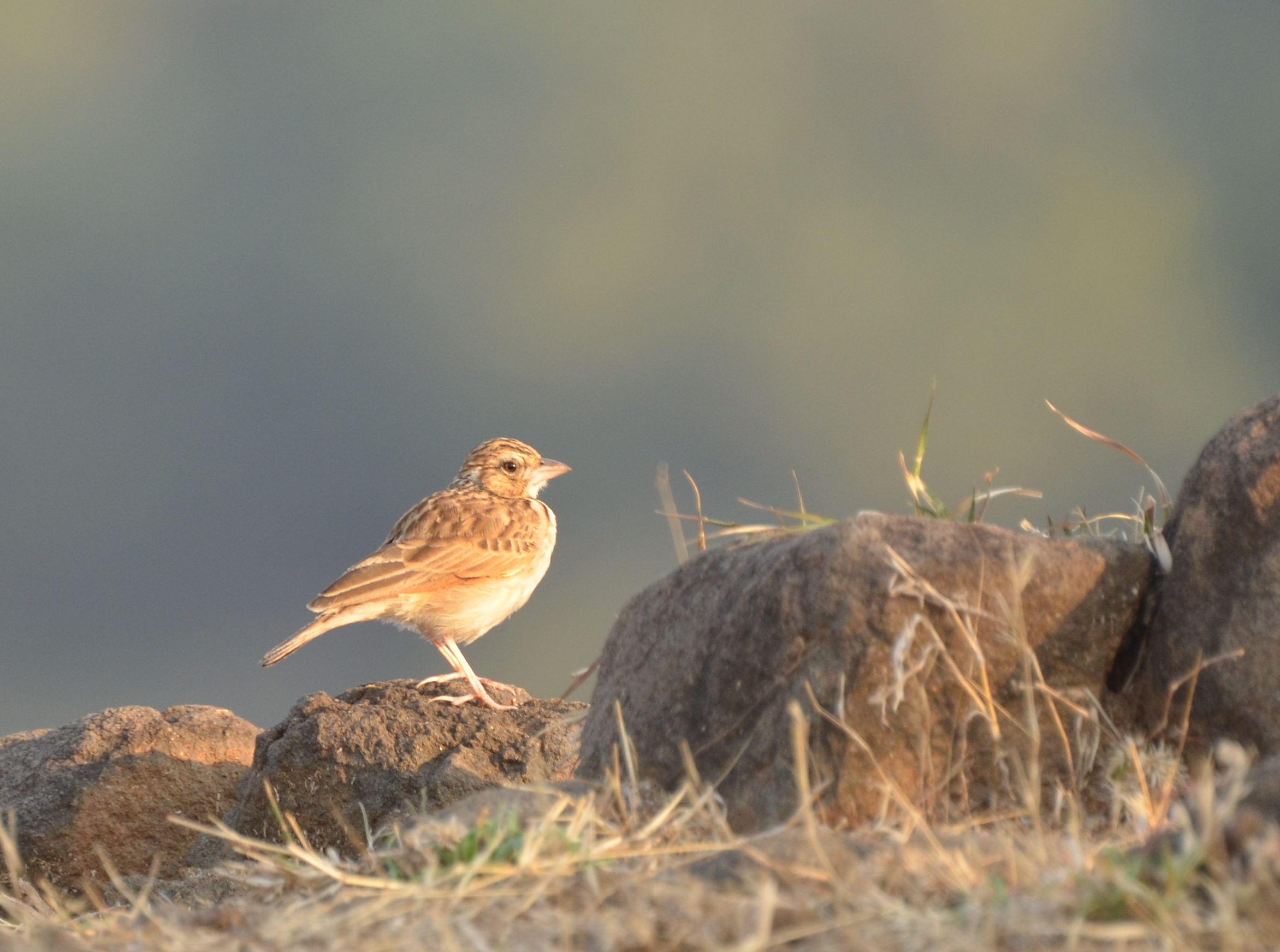 An Indian bushlark in fallow fields in Ajanta